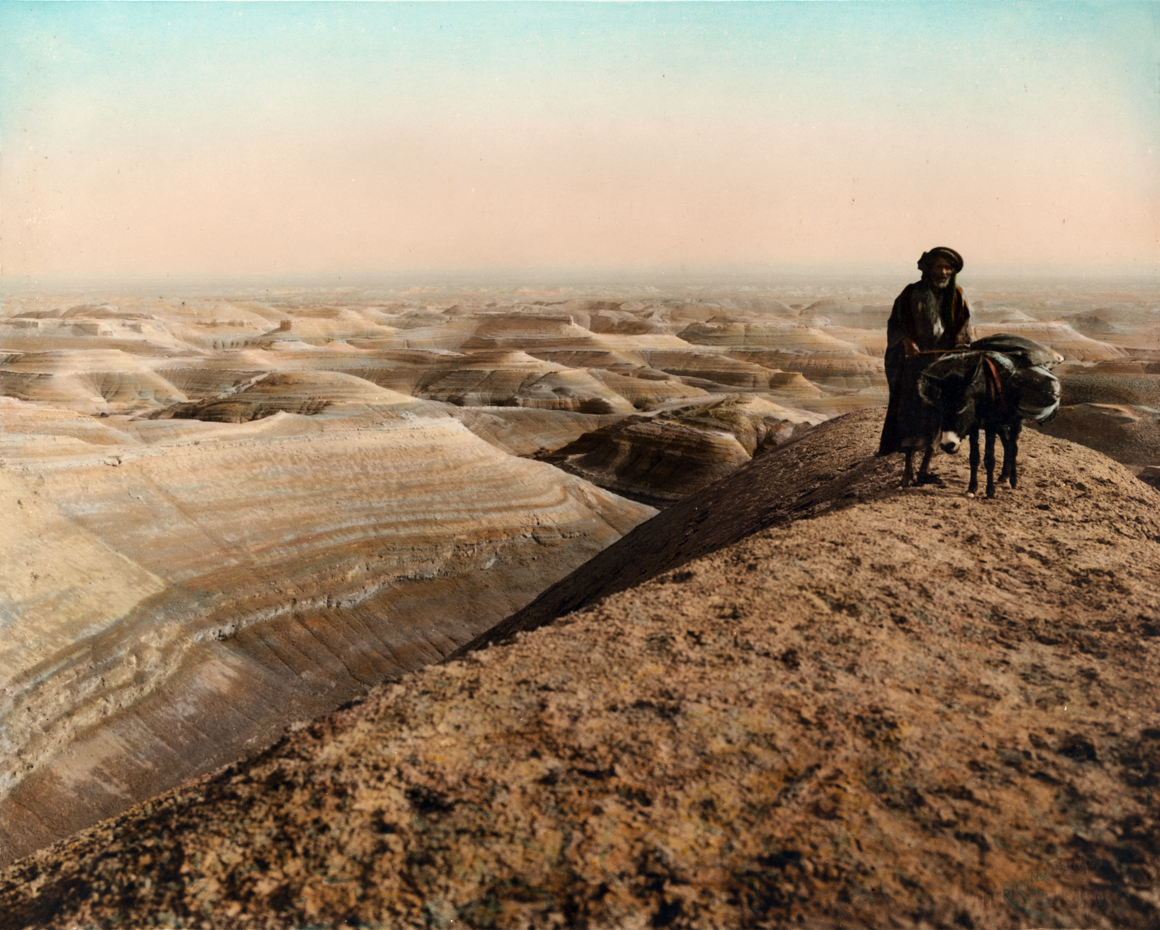 Man with donkey, near Dead Sea(?)